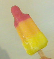 raket (ice)